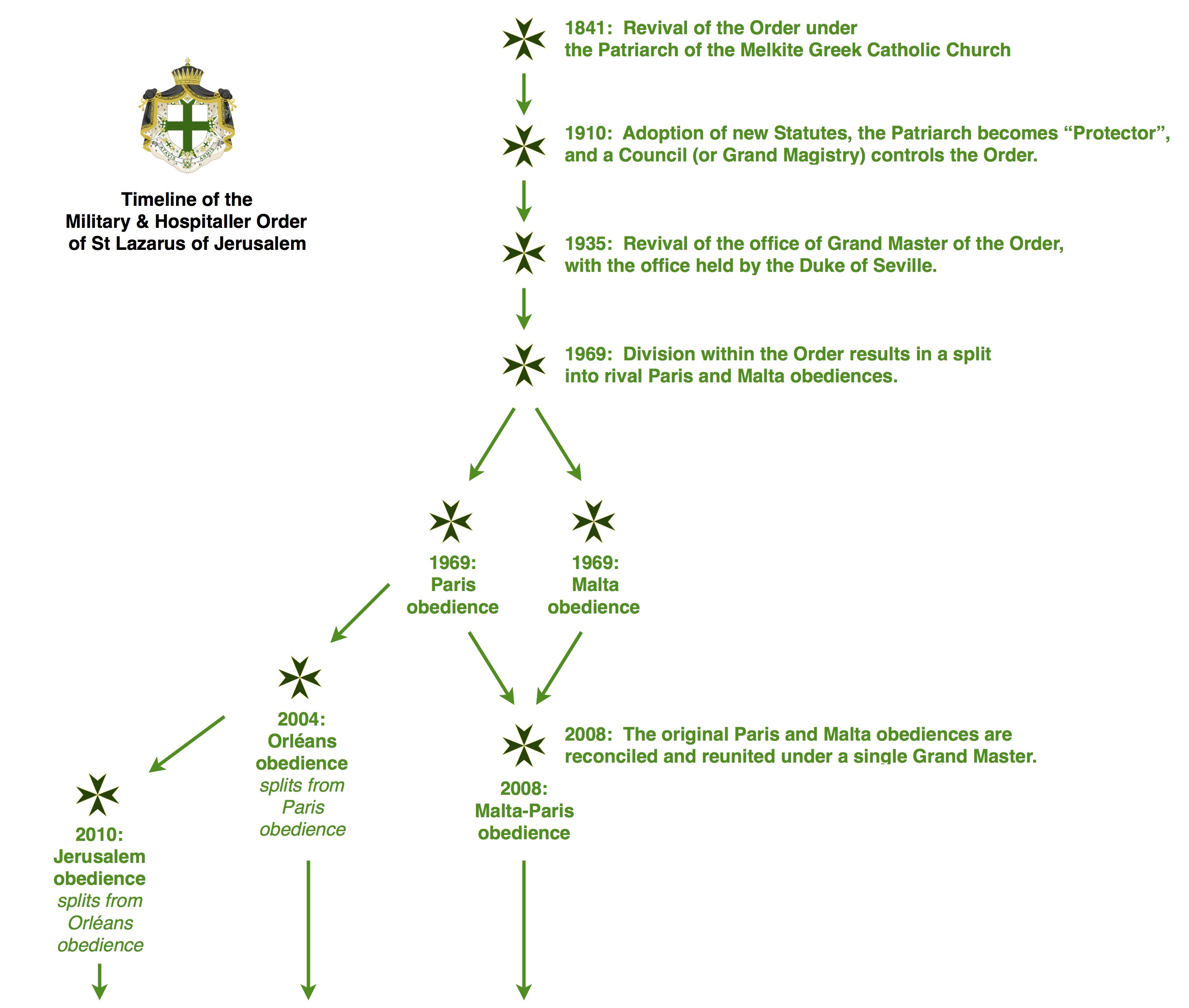 A summary timeline of key historical dates of the Order of St Lazarus of Jerusalem, with the relationships of the current rival obediences.